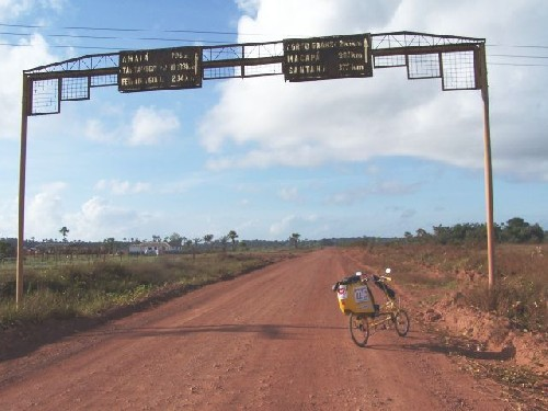 Dirty Road to Calzoene, AP - Brazil